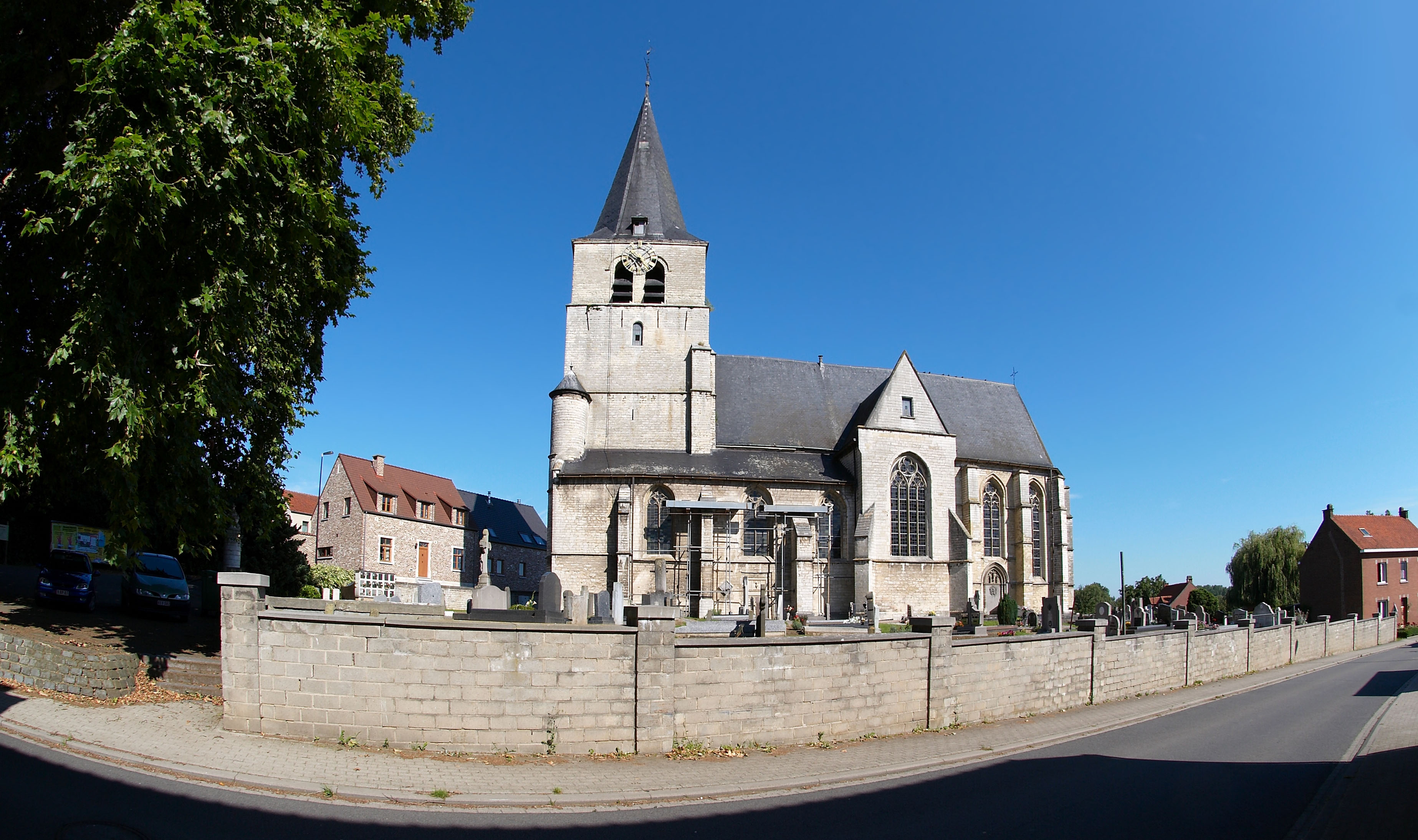 Church in Sint-Agatha-Rode, looking direction NW - OpenStreetMap(Info)